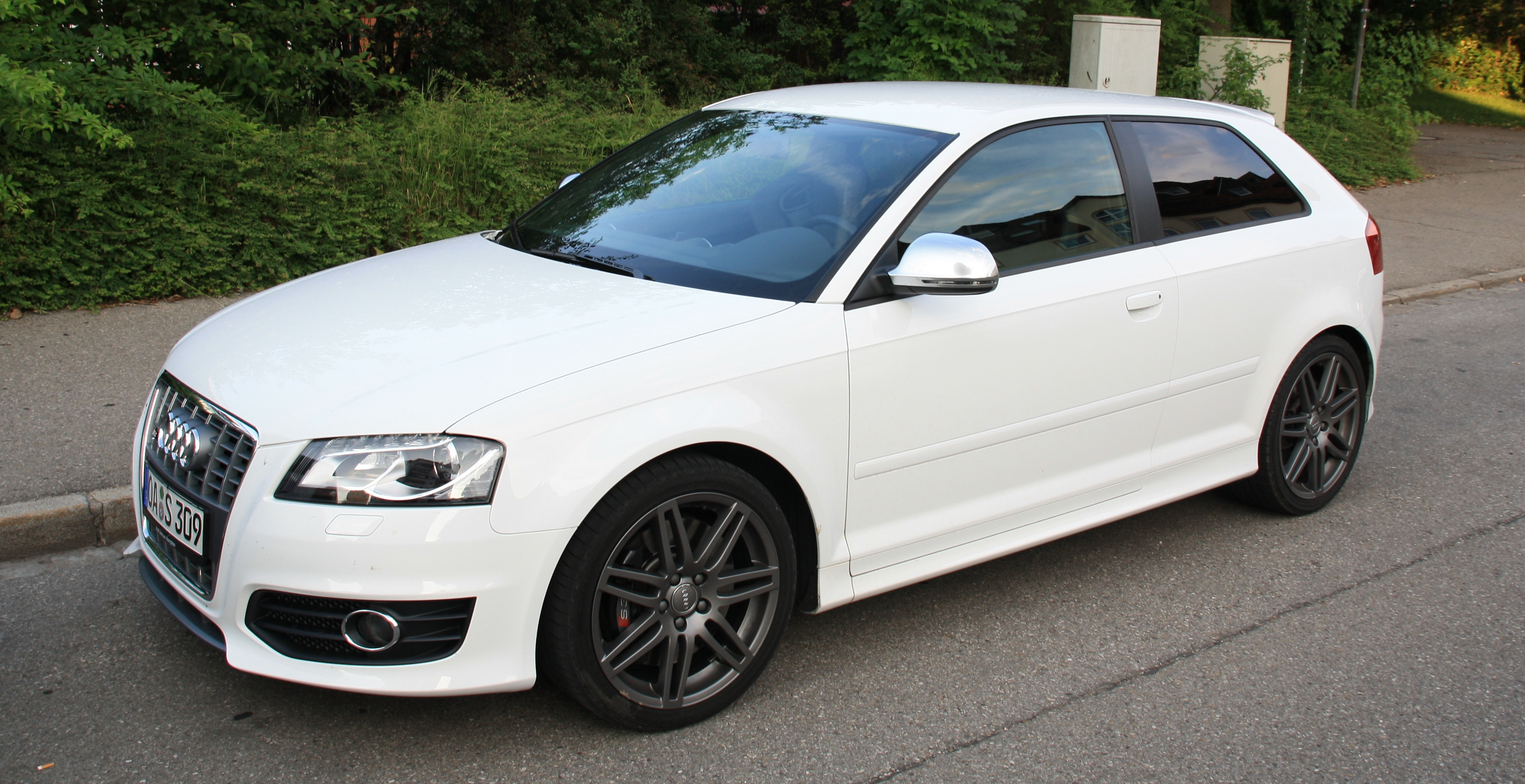 Audi S3 (P8) in white (second generation)